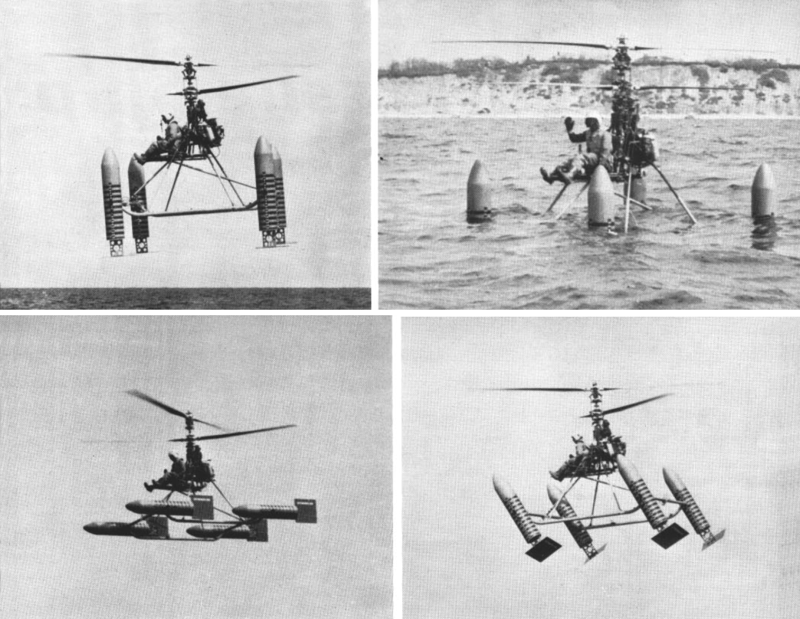 A Gyrodyne RON Rotorcycle helicopter making a water landing, probably in the late 1950s.